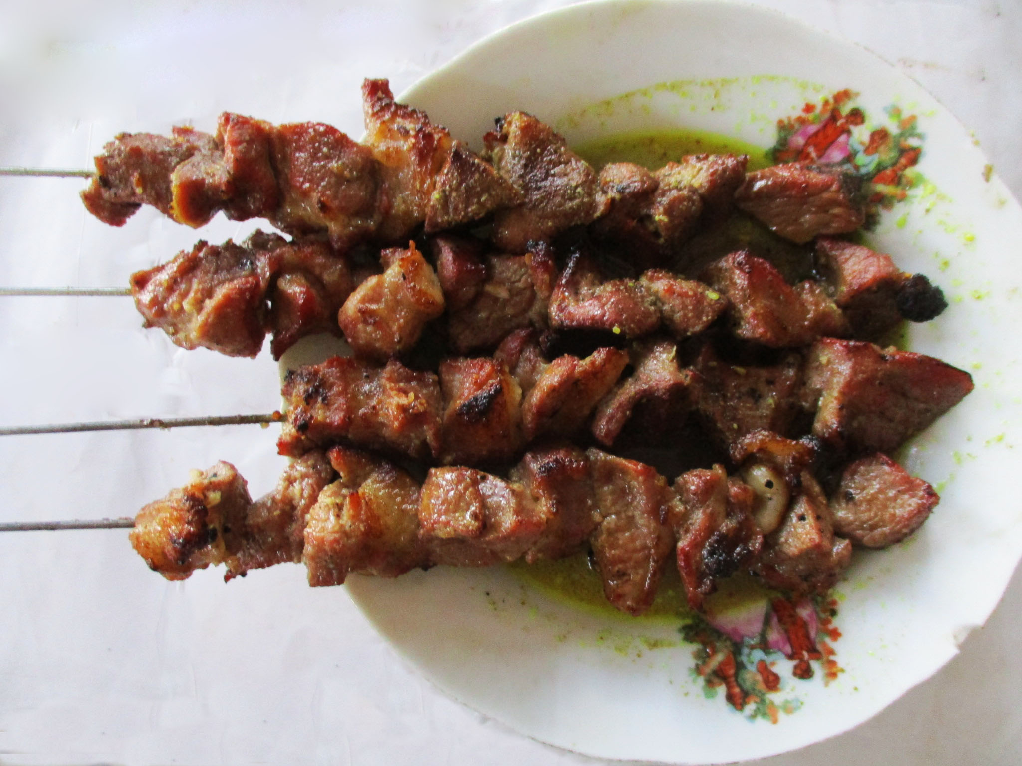 Klathak satay is served in table. Klathak satay is one of signature dish from Bantul, Yogyakarta.